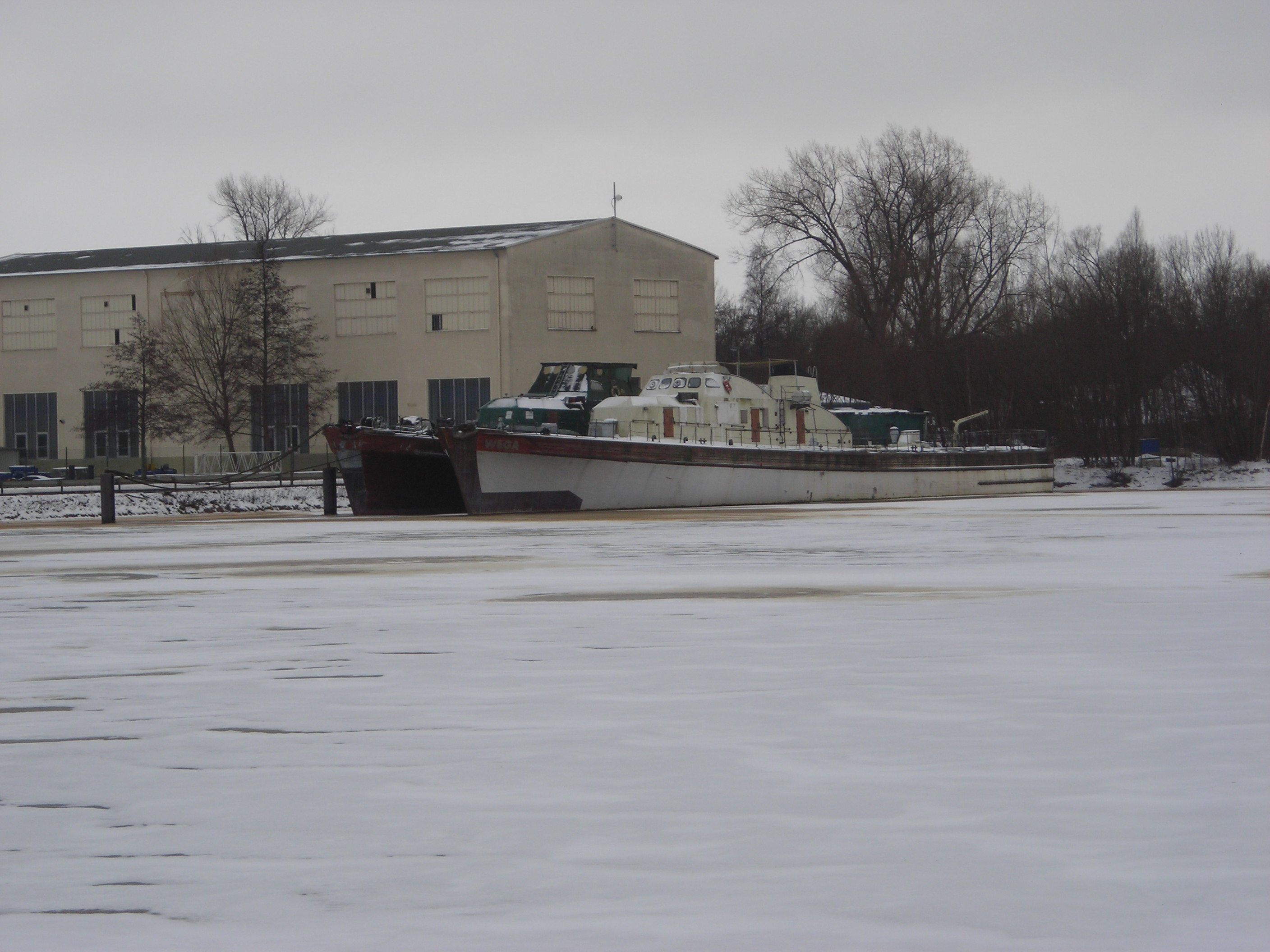 Two former German minesweepers type Schuetze in Wilhelmshaven. In the foreground ex-Wega, in the background Gemma with higher bridge.